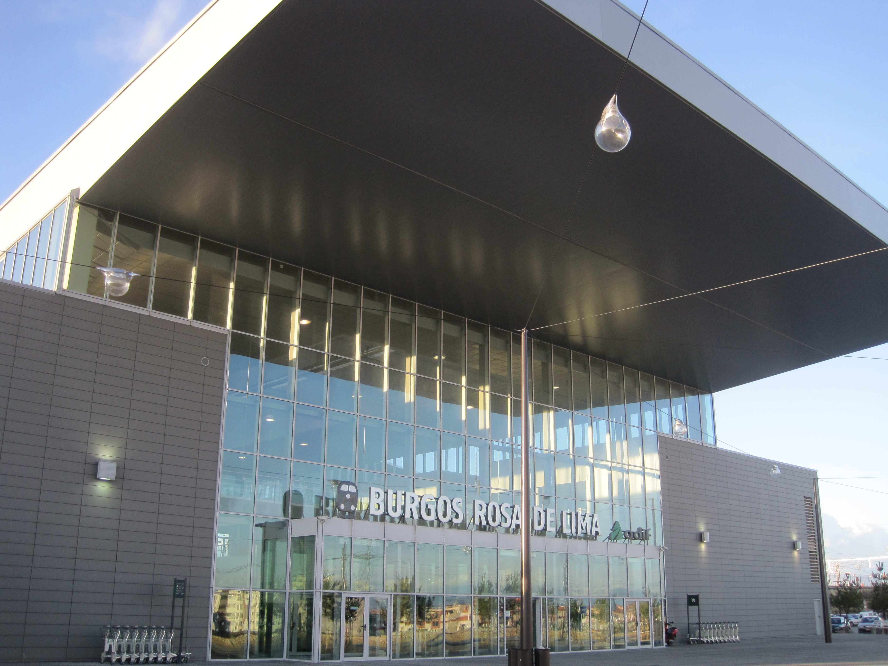 Burgos Train Station (Burgos, Castile and León, Spain).